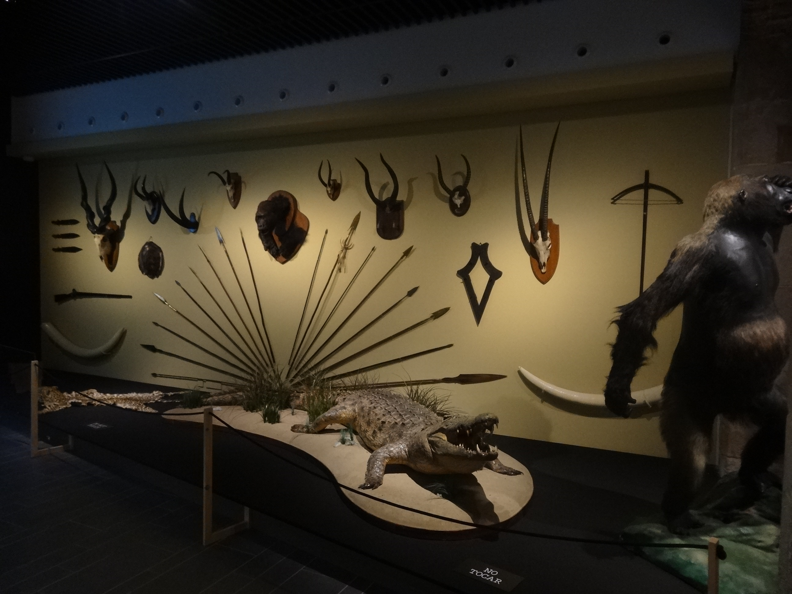 Museu de Cultures del Món. Temporal exhibition "Ikunde. Barcelona, metròpoli colonial".